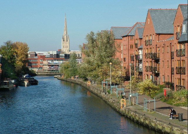 Riverside Flats Norwich. In the distance is Norwich Cathedral